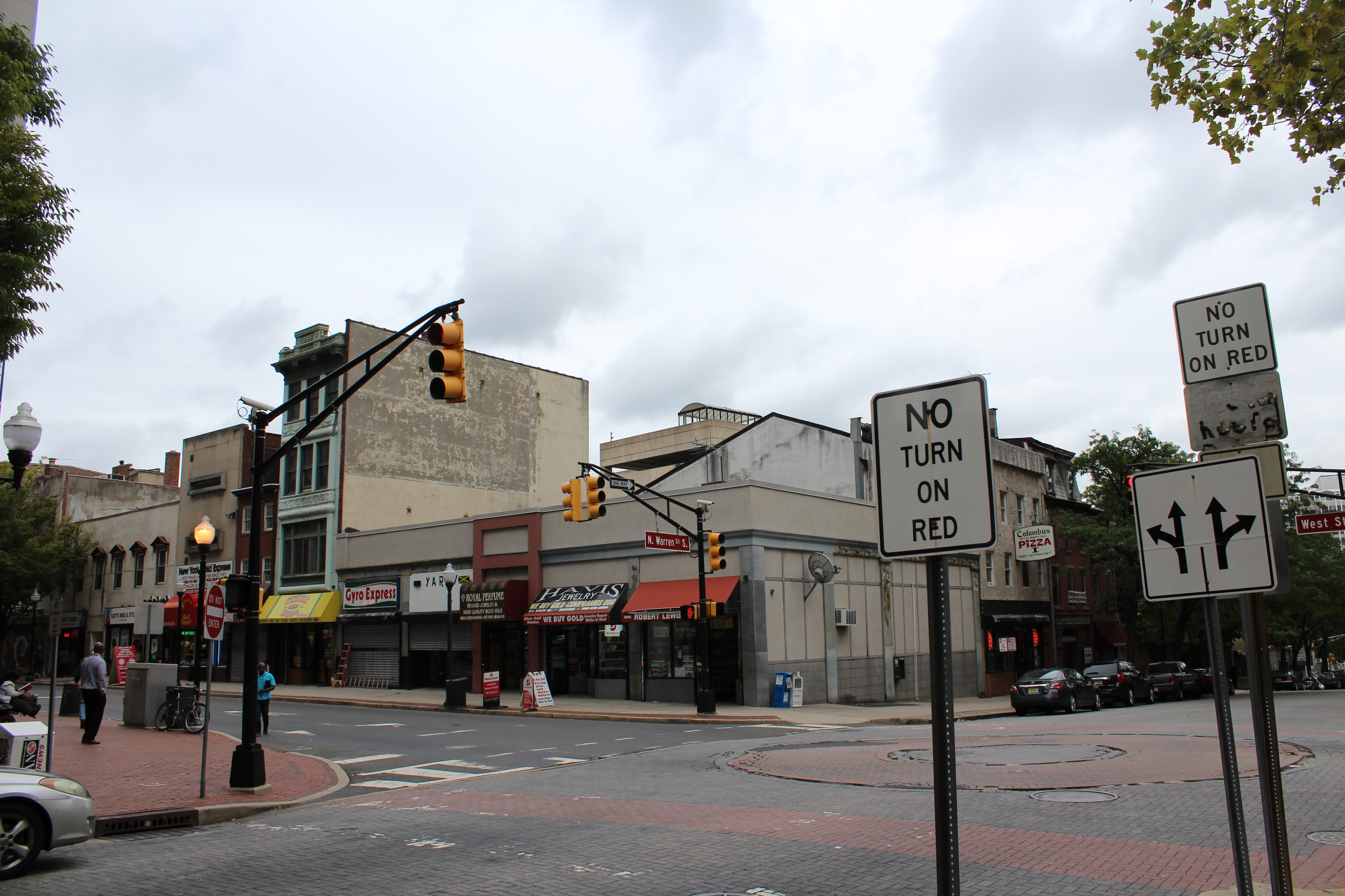 East State Street, Trenton New Jersey